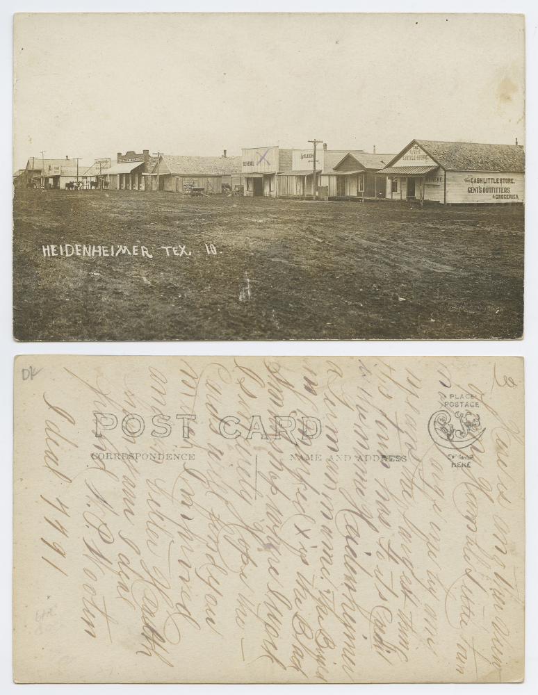 Title: Heidenheimer, Tex. Creator: Unknown Date: ca. 1904-1910 Part Of: George W. Cook Dallas-Texas Image Collection Place: Heidenheimer, Bell County, Texas Physical Description: 1 photographic print (postcard): gelatin silver; 9 x 14 cm File: a2014_0020_3_3_d_0185_c_heidenheimerst.jpg Rights: Please cite DeGolyer Library, Southern Methodist University when using this file. A high-resolution version of this file may be obtained for a fee. For details see the web page. For other information, . For more information and to view the image in high resolution, see: View the George W. Cook Dallas/Texas Image Collection